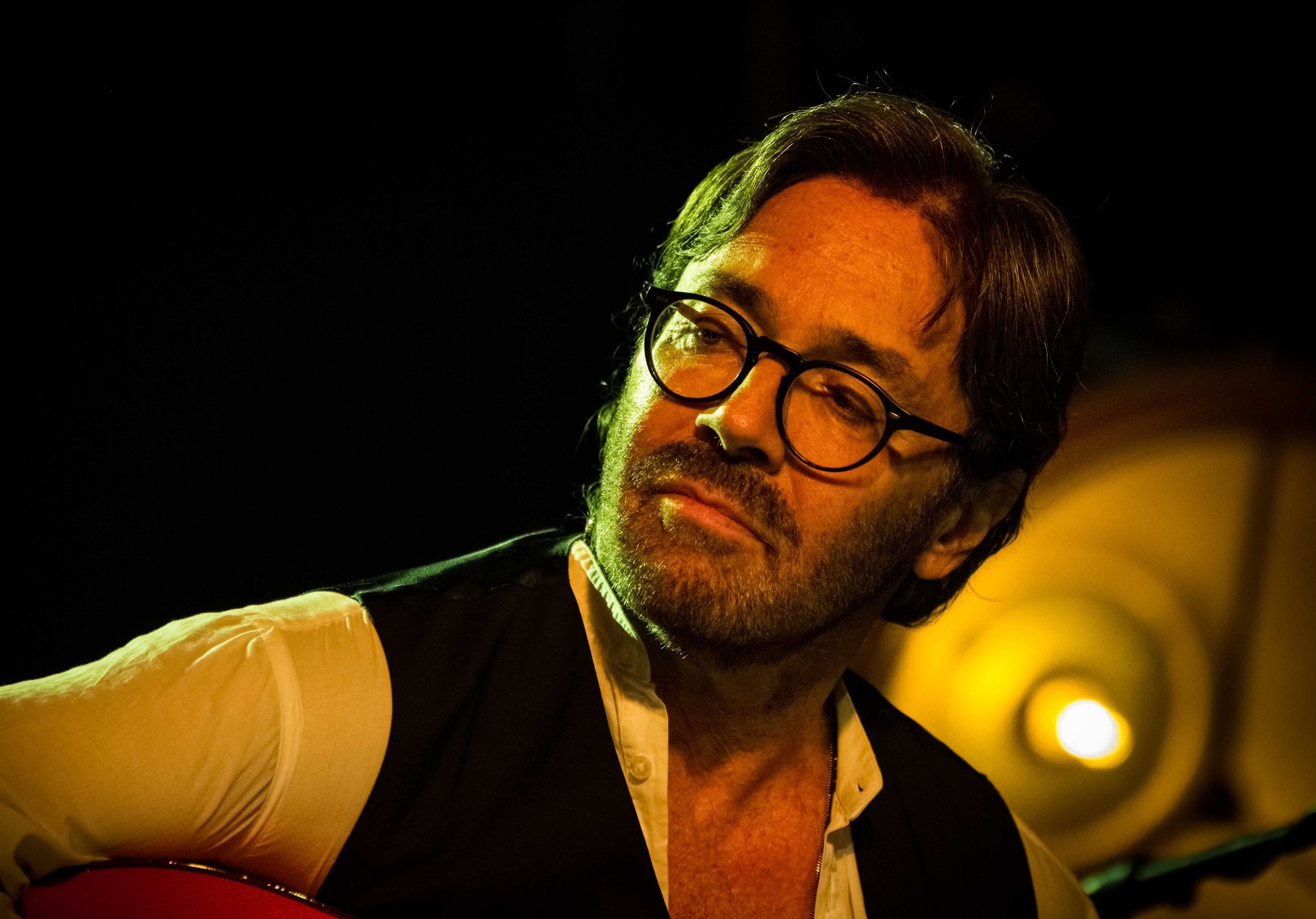 Al Di Meola with Peo Alfonsi (2nd Guitar) and Peter Kaszas (Drums, Percussion) - Leverkusener Jazztage 2016